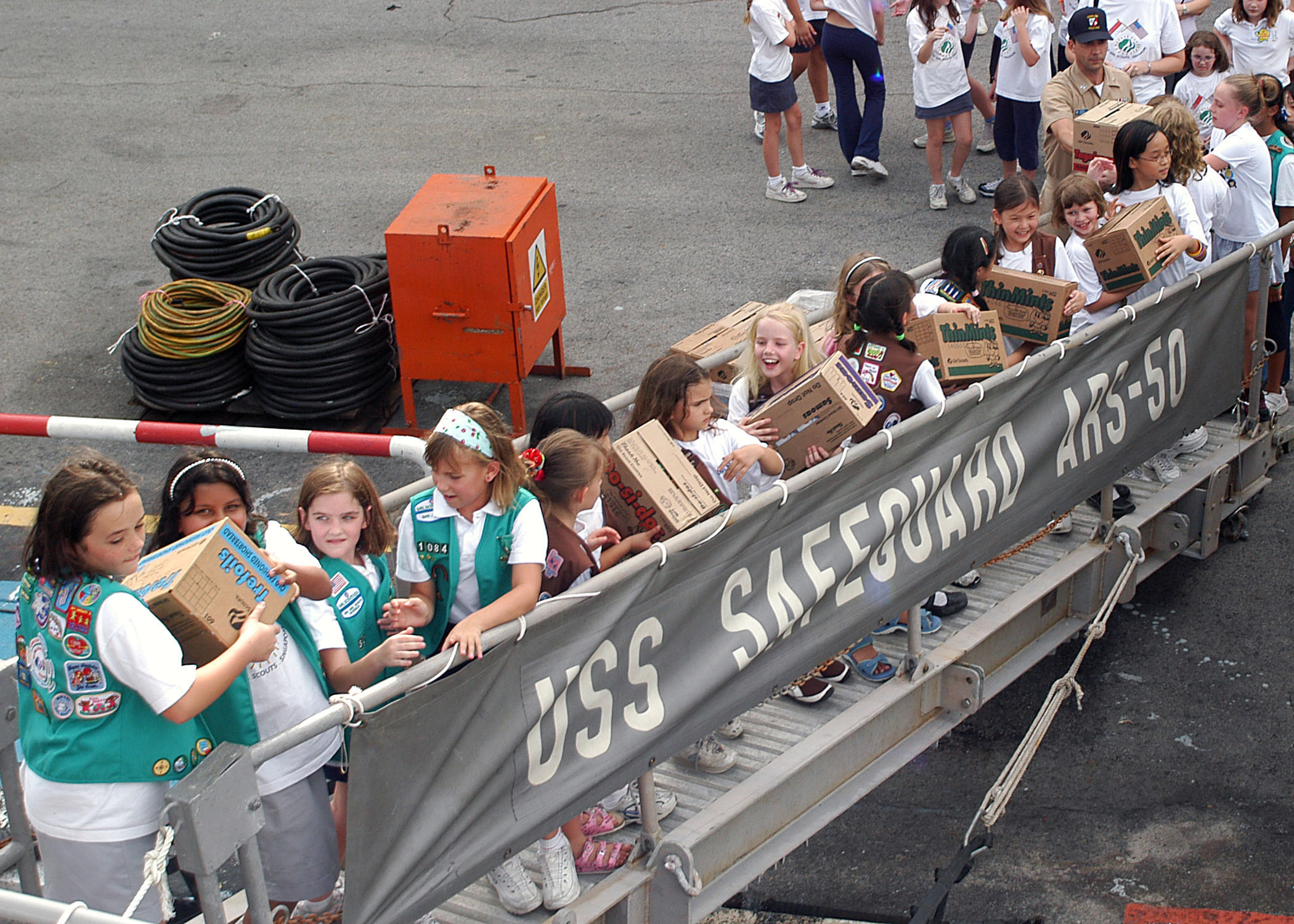 Singapore (May 09, 2005) - Girl Scouts and Brownies from two troops in Singapore pass Girl Scout cookie boxes up the brow of the rescue and salvage ship USS Safeguard (ARS 50) as part of Operation Thin Mint. The Scouts delivered the cookies to bring a taste of home the Sailors while deployed. Enough cookies were delivered for each member of the crew to have his or her own box. Commander Logistics Group Western Pacific (CLWP), located in Singapore, is coordinating the distribution of more than 40,000 boxes of Girl Scout cookies to deployed Sailors and Marines throughout the 7th Fleet area of operation. U.S. Navy photo by Journalist 2nd Class Kathryn Whittenberger (RELEASED)